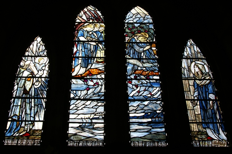 Dunblane Cathedral, Perth and Kinross, Scotland - stained glass by Louis Davis (1917): Nunc Dimittis